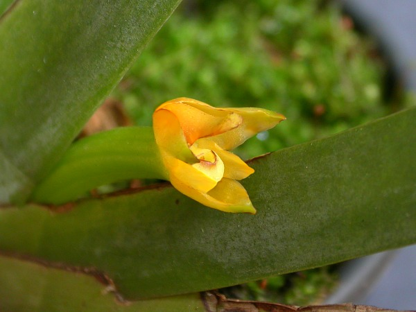 Heterotaxis valenzuelana